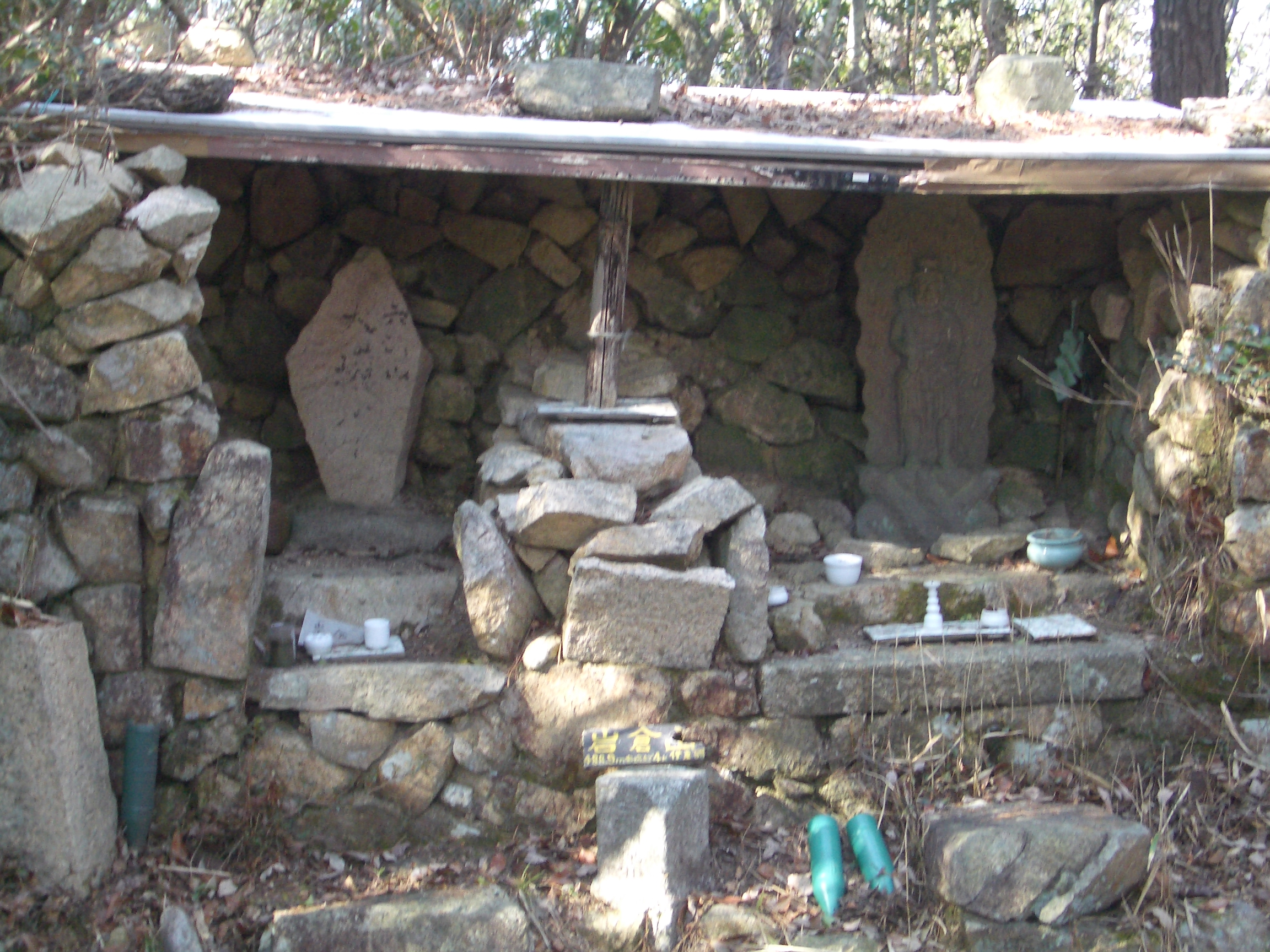 The Stone Shrine on the Top of Mount Iwakura, Takarazuka, Hyogo, Japan.